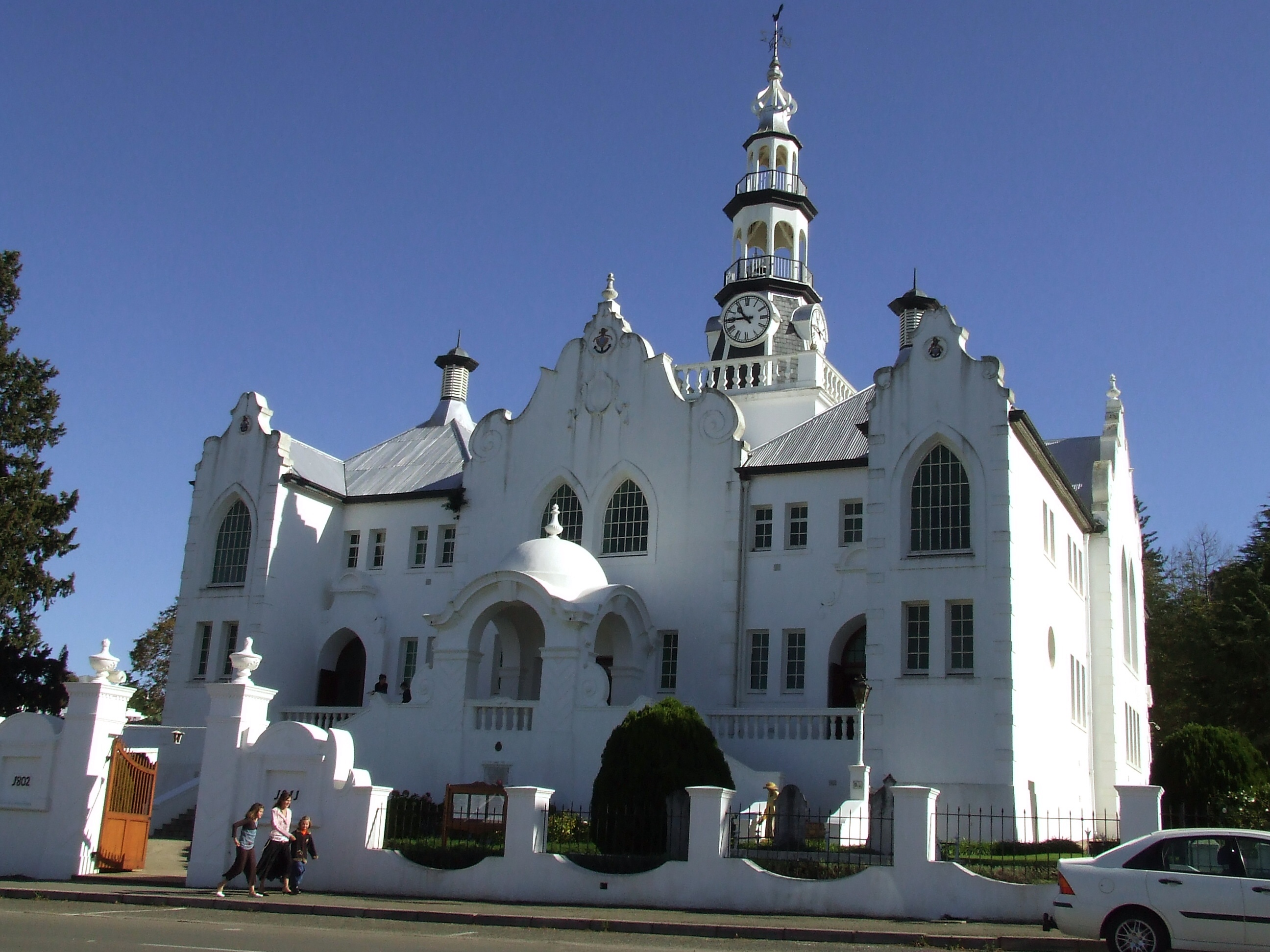 Local Tourism authority states in its blog on this building: “There are also several interesting buildings dating from the beginning of the 20th century, the most noteworthy being the Dutch Reformed ‘Moederkerk’ with its eclectic architectural features, including Gothic, Renaissance, Baroque and vernacular Cape elements” This media shows a South African Protected Site with SAHRA file reference 9/2/092/0029.